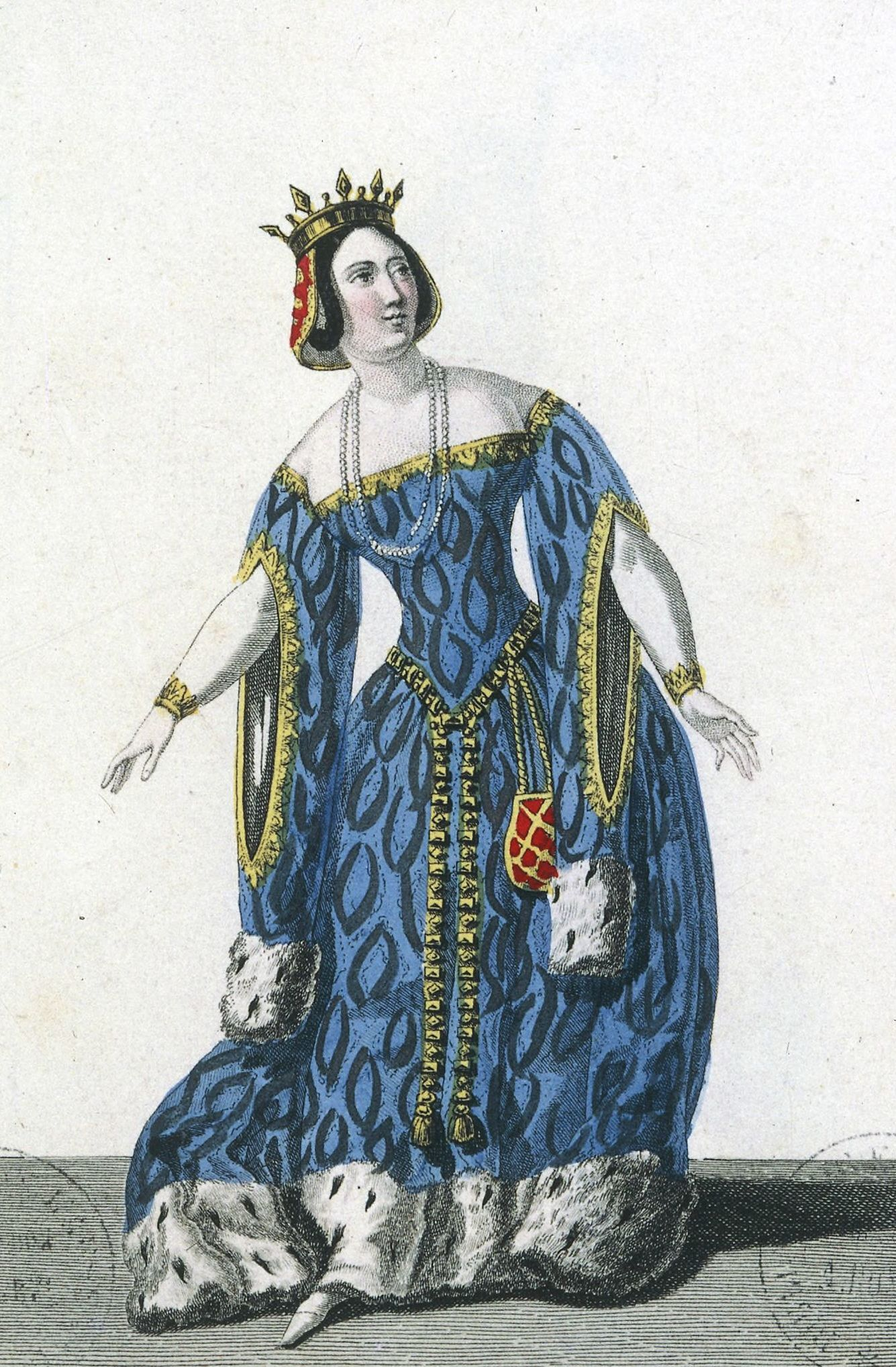 Costume of character Marguerite de Bourgogne, by French actress Mademoiselle George, in the play "La Tour de Nesle" by Alexandre Dumas, Paris, 1832